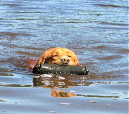 Nova Scotia Duck Tolling Retriever - Seawild's Taste Of trouble